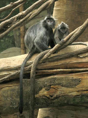 Description: Silvery Lutung - Source: own work - Location: Bronx Zoo, New York - Author: self, User:Stavenn